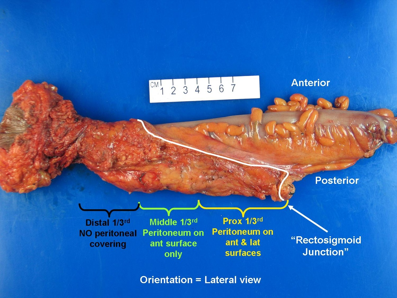 Abdominoperineal resection specimen. Gross pathology. Related images Anterior view Lateral view Anterior and lateral view (inked) Opened